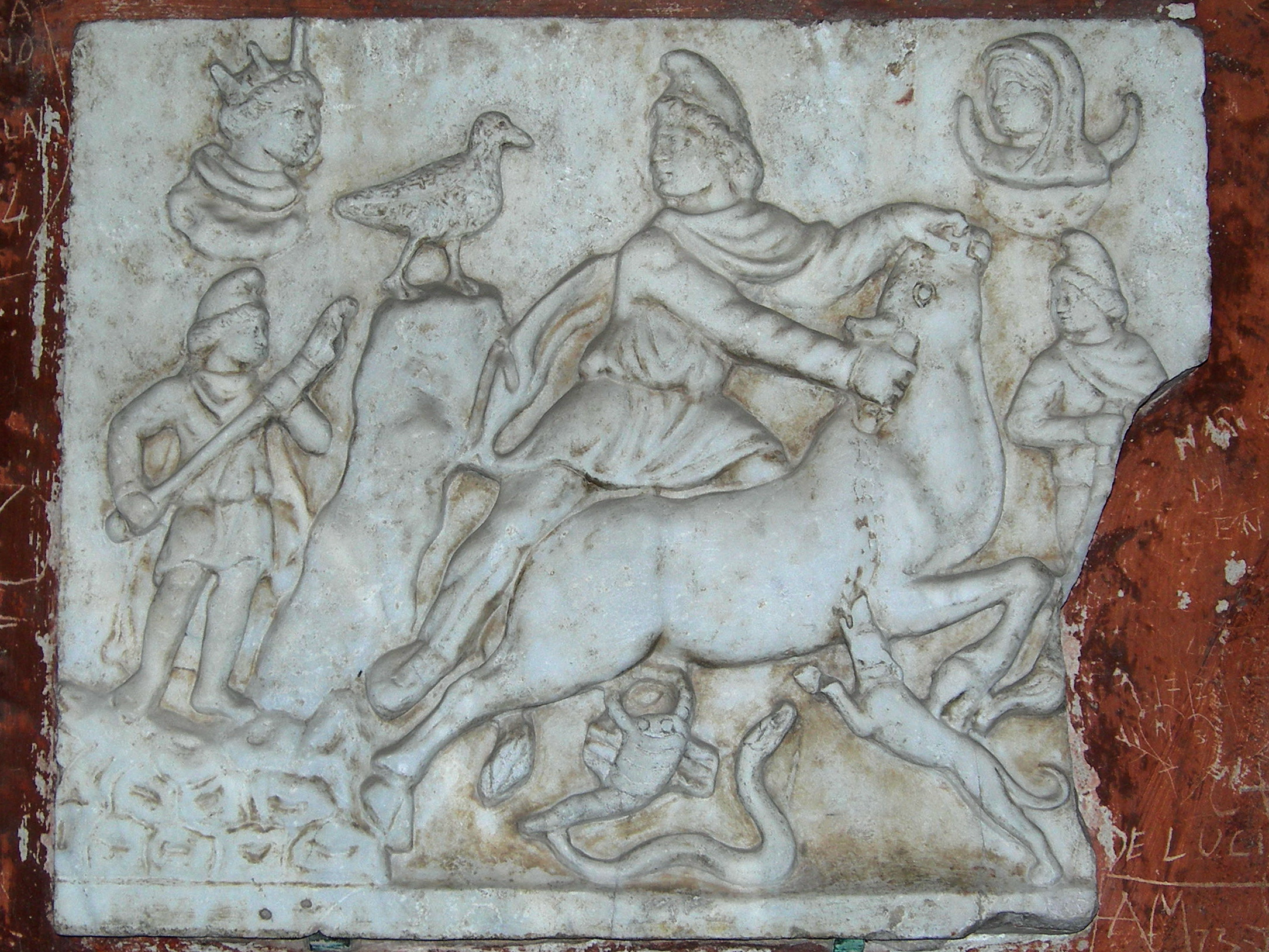 Mithraic relief of Pisa, Monumental Cemetery